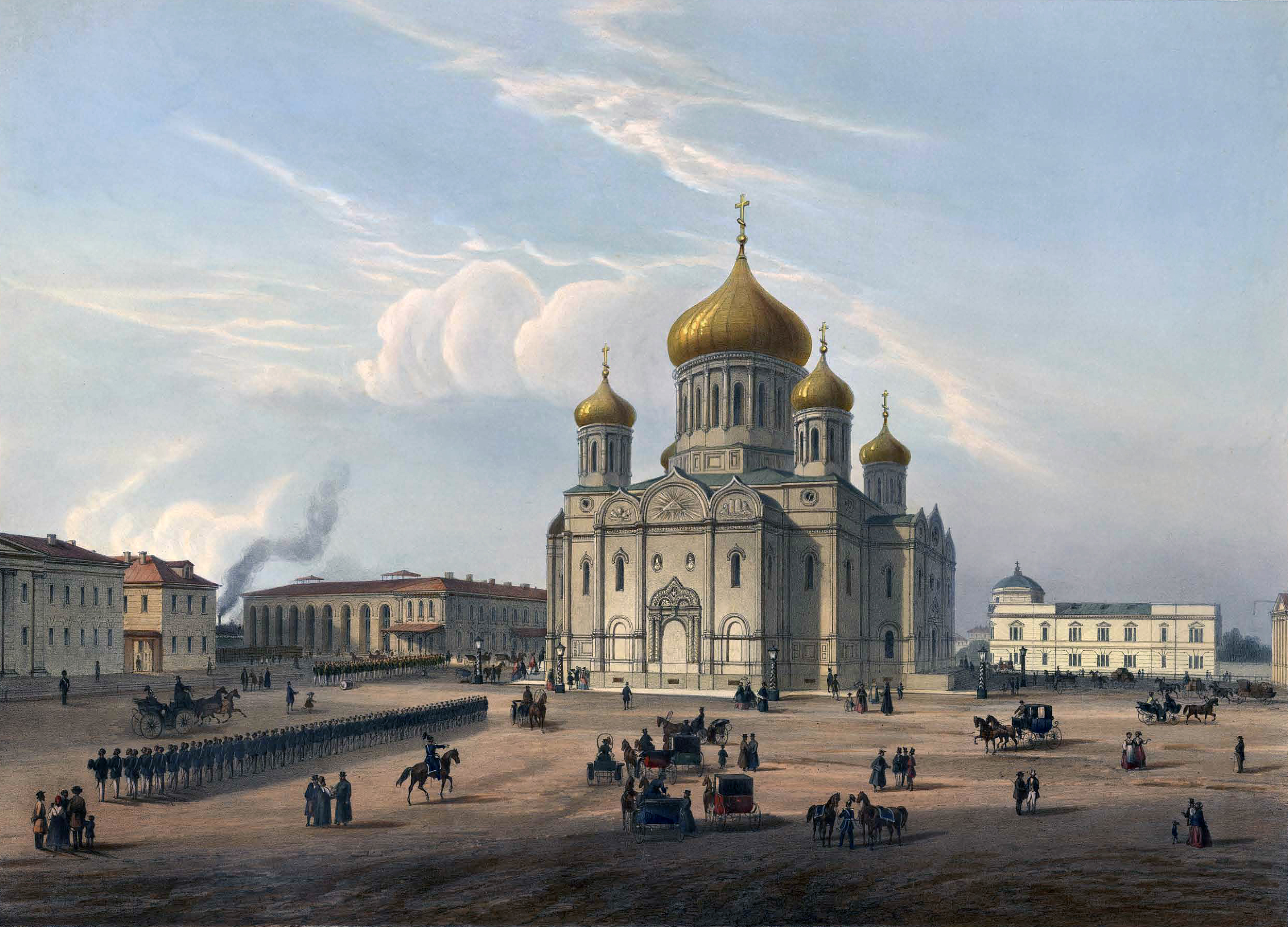 Vvedensky Cathedral (Presentation of the Holy Virgin Cathedral) of the life guards Semenovsky regiment in St. Petersburg in the 19th century lithograph after a drawing by Charlemagne